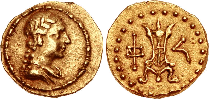 Strato I Soter with the Divine Agathokleia